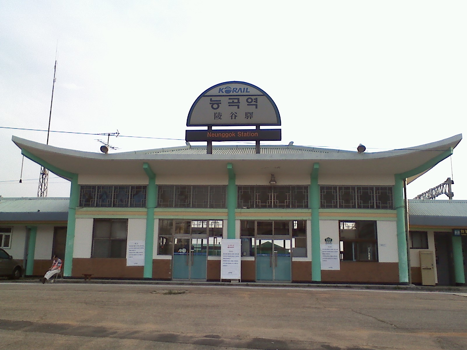 Neunggok station